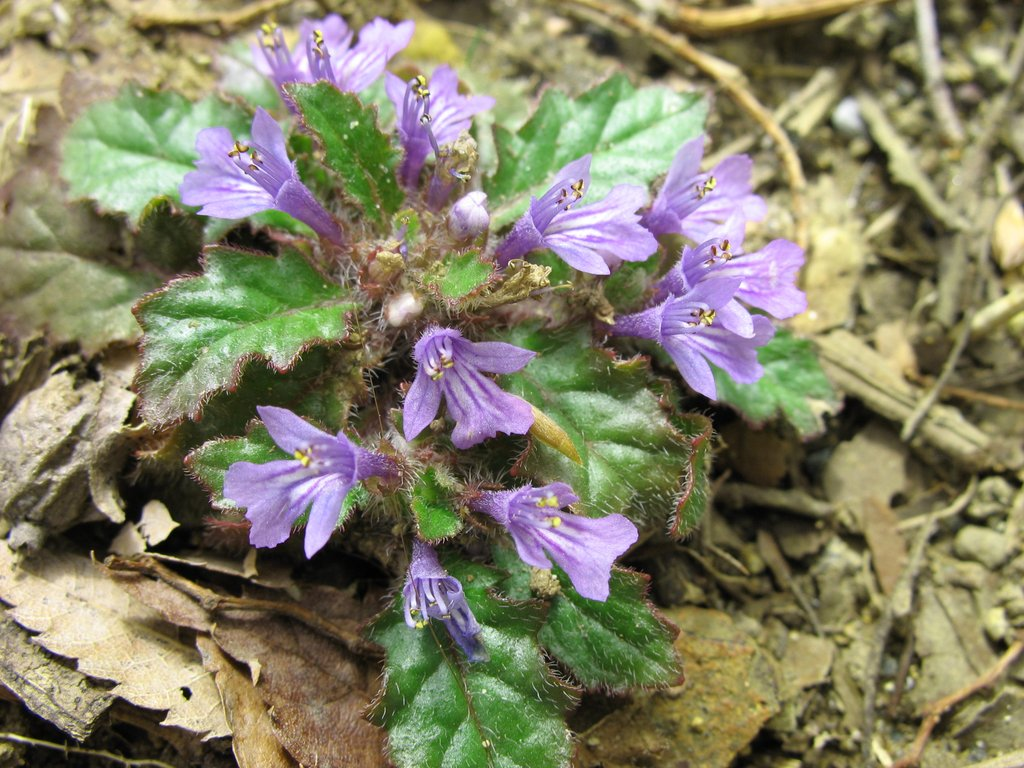 Photograph of Ajuga decumbens, taken in Machida city, Tokyo, Japan. (resized)